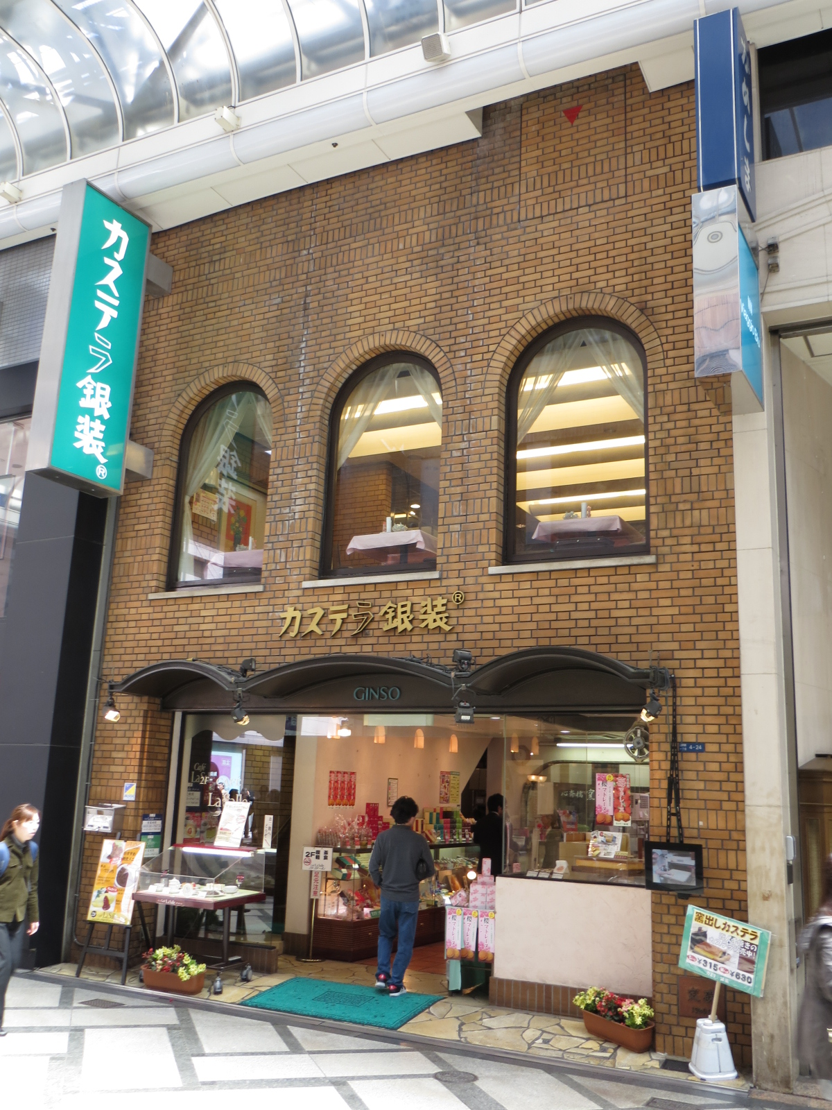 GINSO Corporation (Castella Shop). Shinsaibashi, Osaka.